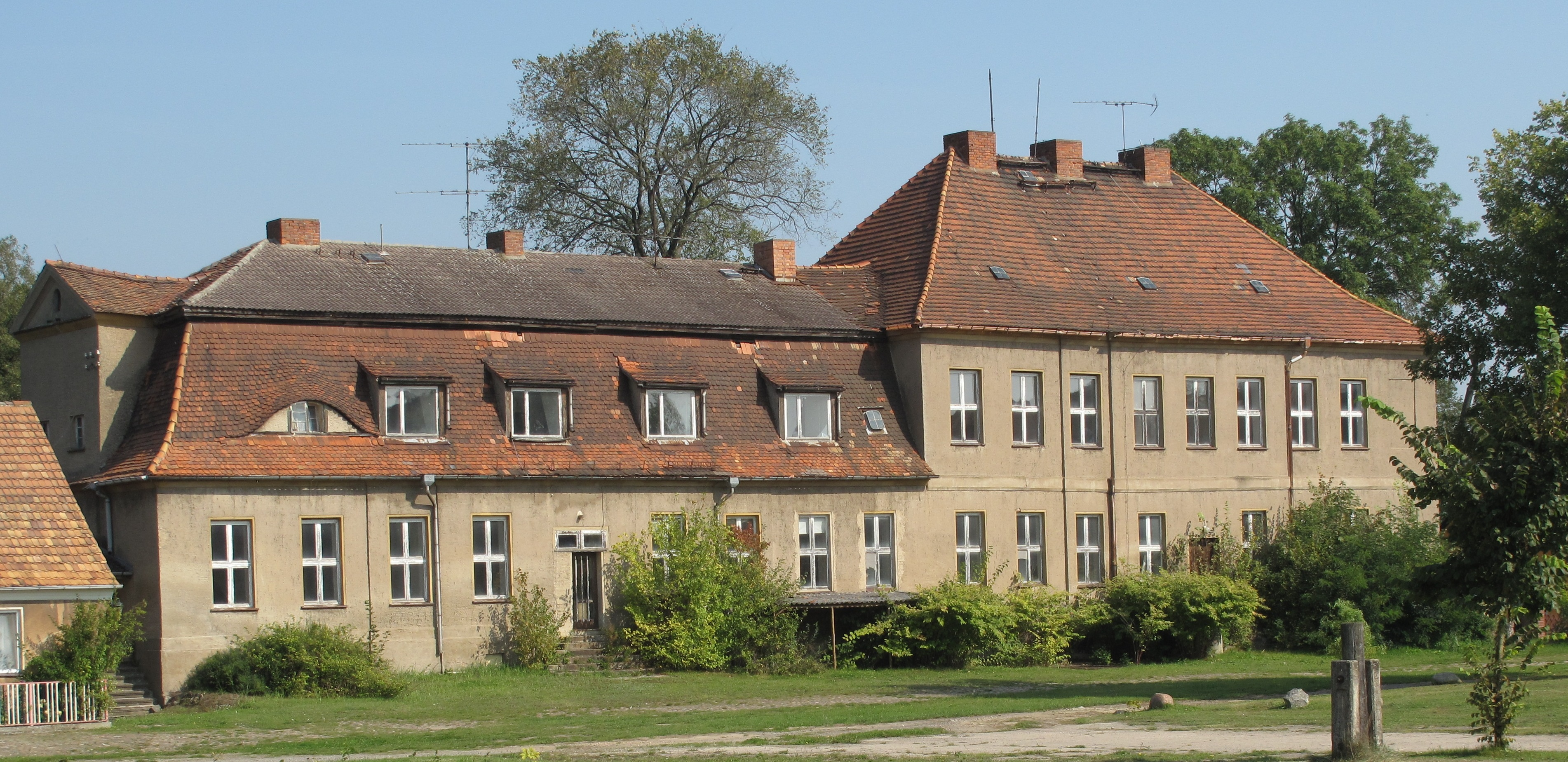 „Gutshof Trebatsch“ (estate) in Trebatsch, a part of the municipality Tauche in the District Oder-Spree, Brandenburg, Germany. The former manor was bought in 1737 by the 'Soldier King' Frederick William I of Prussia and since then under state administration. In the GDR period it was Volkseigenes Gut (VEG) (German for: People-Owned Property) for animal und crop farming. After Germans reunification in 1990 it was partially privatized by the Treuhandanstalt and in 2011 entirely privatized.